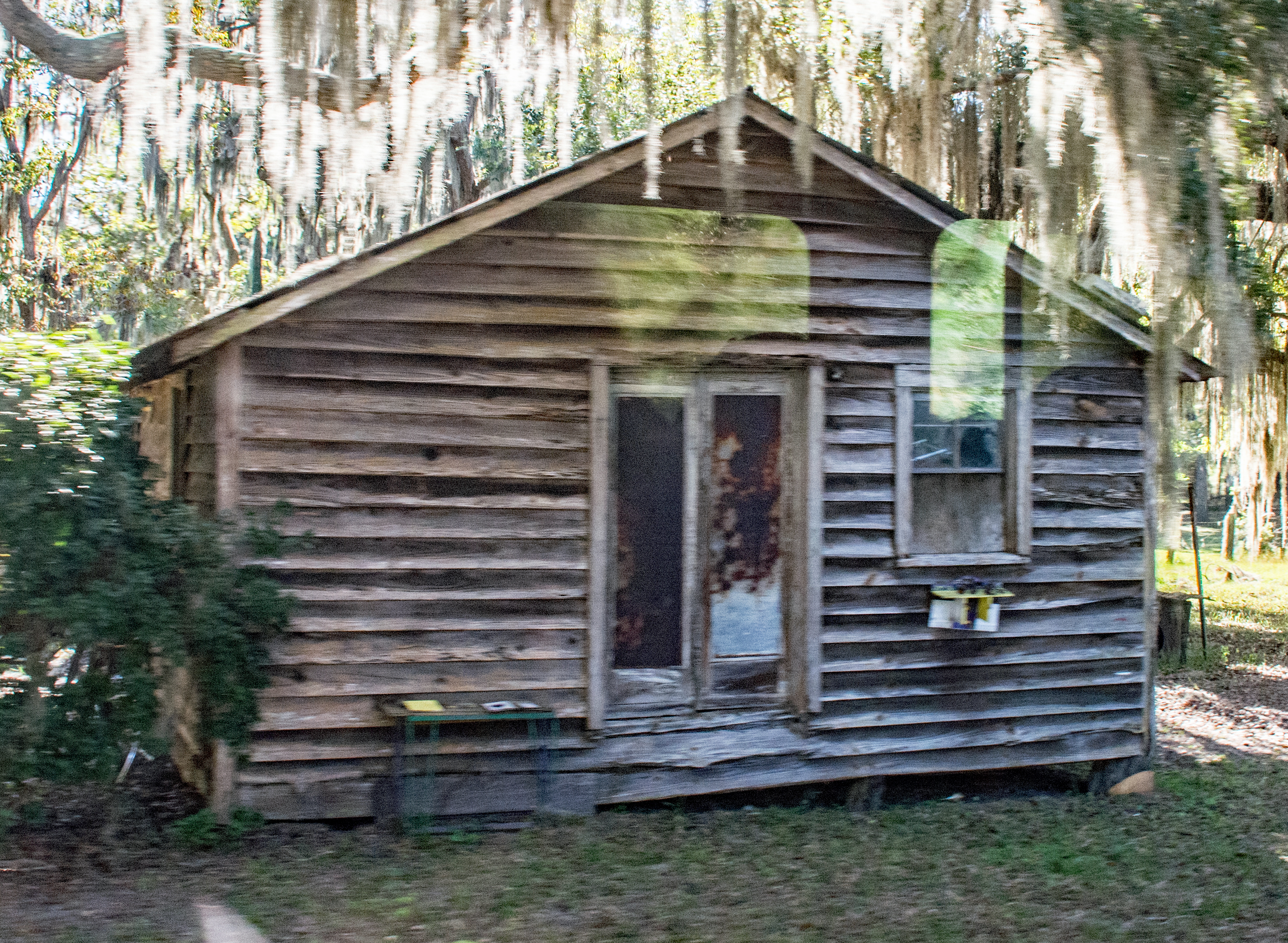 Hog Hammock Historic District, house 4 (the tour bus was moving)